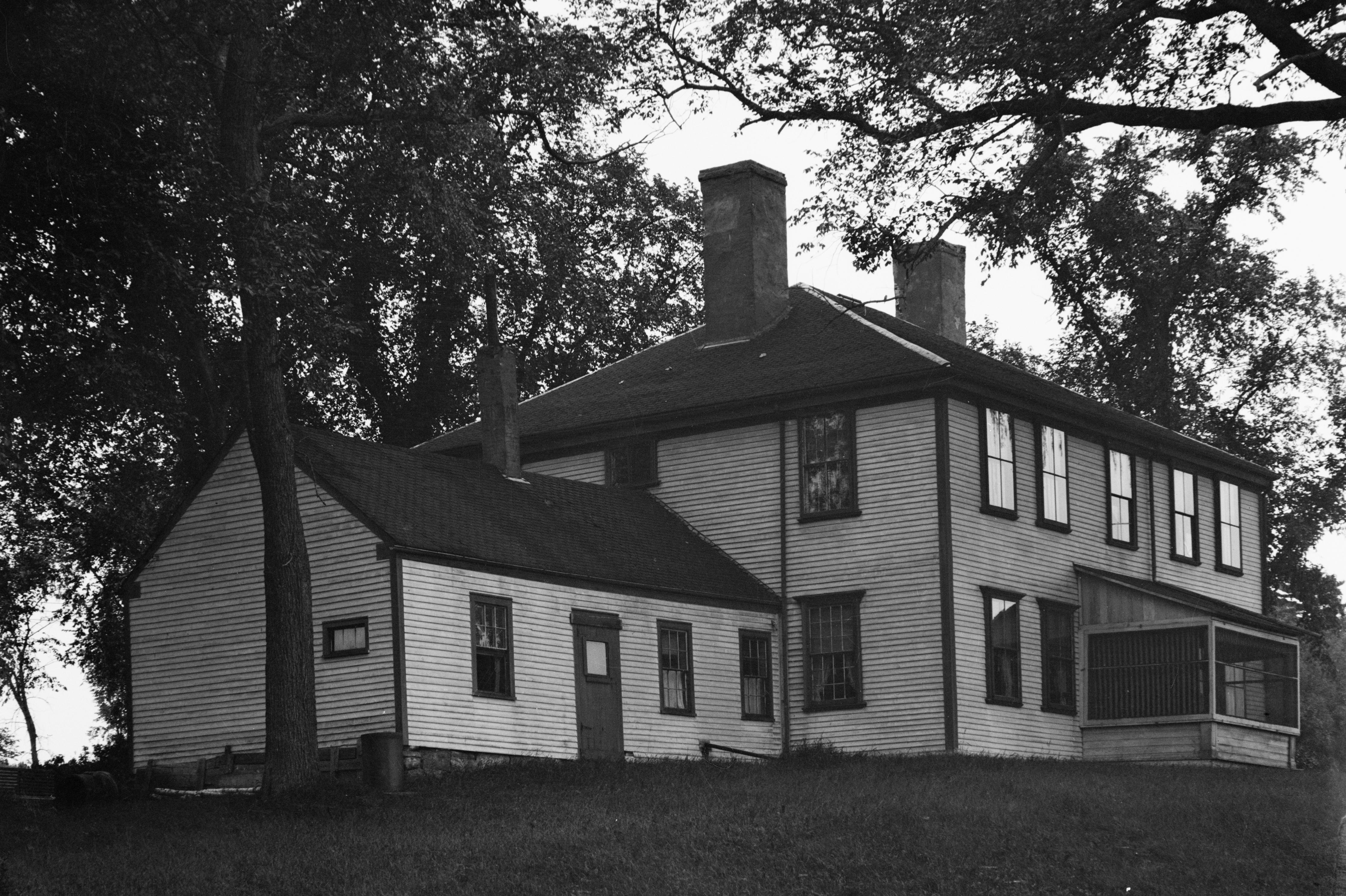 Front and side of the Bowman-Carney House, located off State Route 197 in Dresden, Maine, United States. Built in 1762, it is listed on the National Register of Historic Places.